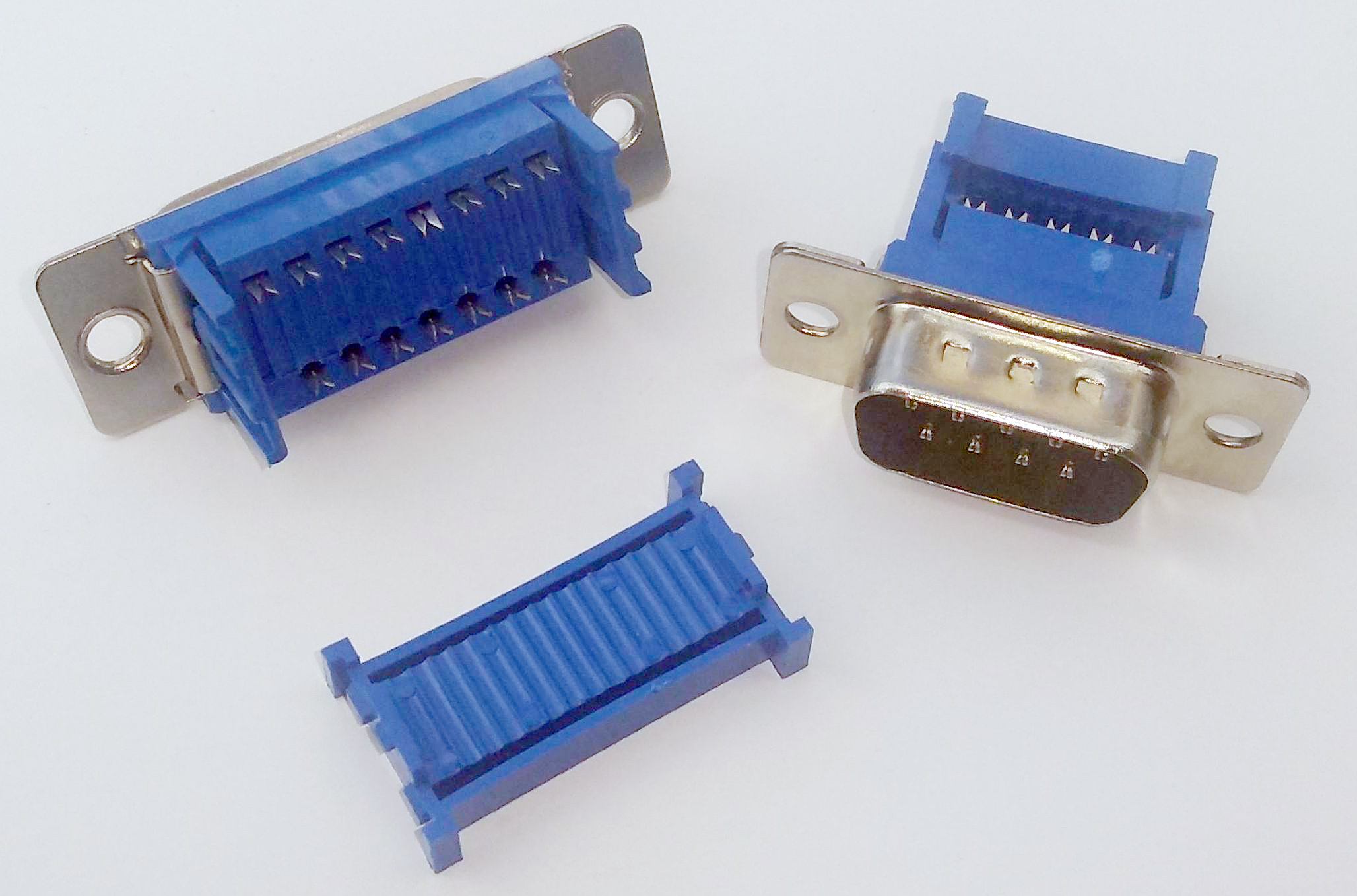 Insulation-displacement connector D-subminiature type, left DE-9 male, right DA-15 female